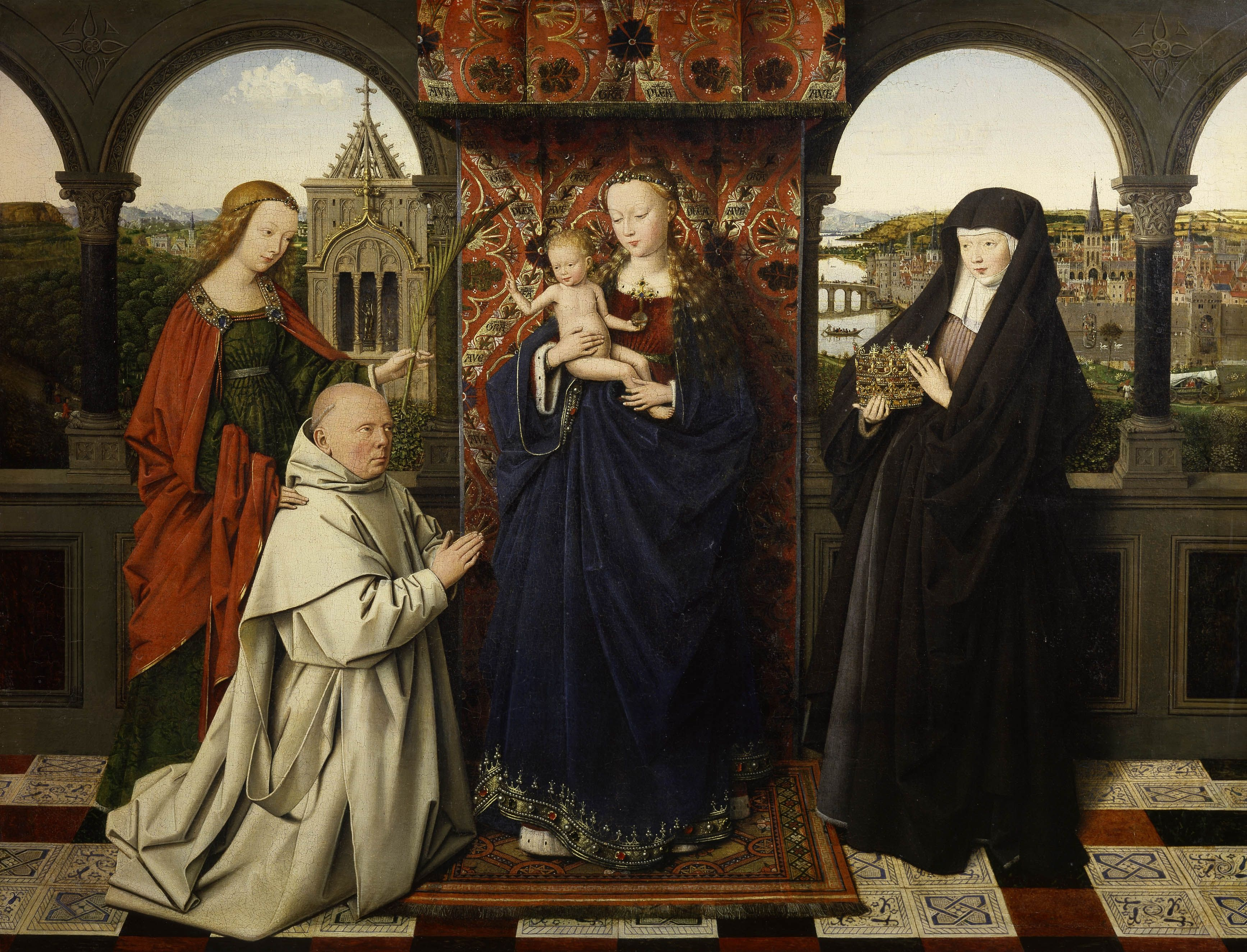 Saint Barbara, to the left, with her attribute, the tower, in which she was prisoned, behind her. As she was, among other roles, patron saint of soldiers, the statue of Mars is shown in a window of her tower. Saint Elisabeth of Hungary, who gave up her crown to become a nun, perhaps depicted because she was the patron saint of Isabella of Portugal (1397–1471), the Duchess of Burgundy, who supported the Carthusian monasteries in the Netherlands and Switzerland. The Carthusian monk has been identified as Jan Vos (d. 1462), Prior of the Charterhouse of Genadeda — or Val-de-Grâce — near Bruges, and a well-known figure in fifteenth-century monastic life in the Netherlands. Documents relate that the Frick painting was ordered as a “pious memorial of Dom Jan Vos. Most scholars consider this one of van Eyck’s last paintings, begun by him in 1441 but completed after his death in his shop.